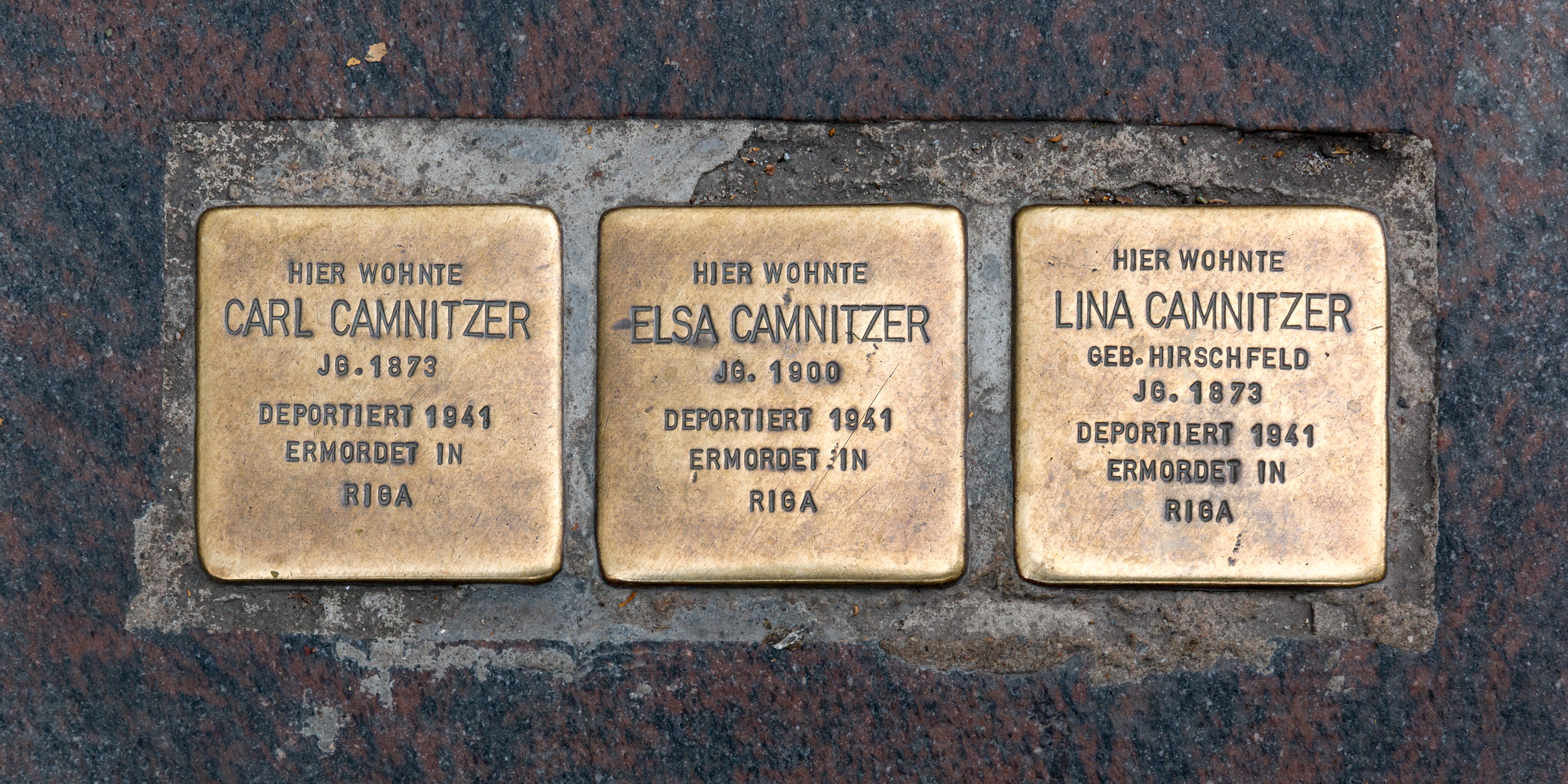 Stolpersteine “Camnitzer”, Lübeck, Schleswig-Holstein, Germany Sculpture TitleStolpersteineArtistGunter DemnigDatefrom 1992 date QS:P,+1992-00-00T00:00:00Z/7,P580,+1992-00-00T00:00:00Z/9